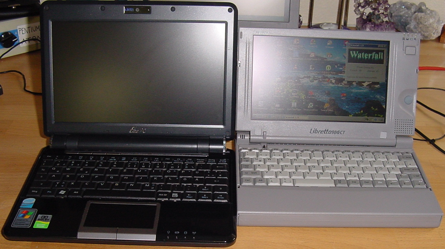 This picture shows the ASUS eeePC 901 besides the Toshiba Libretto 100CT, which was already one of the bigger ones in the Libretto series.